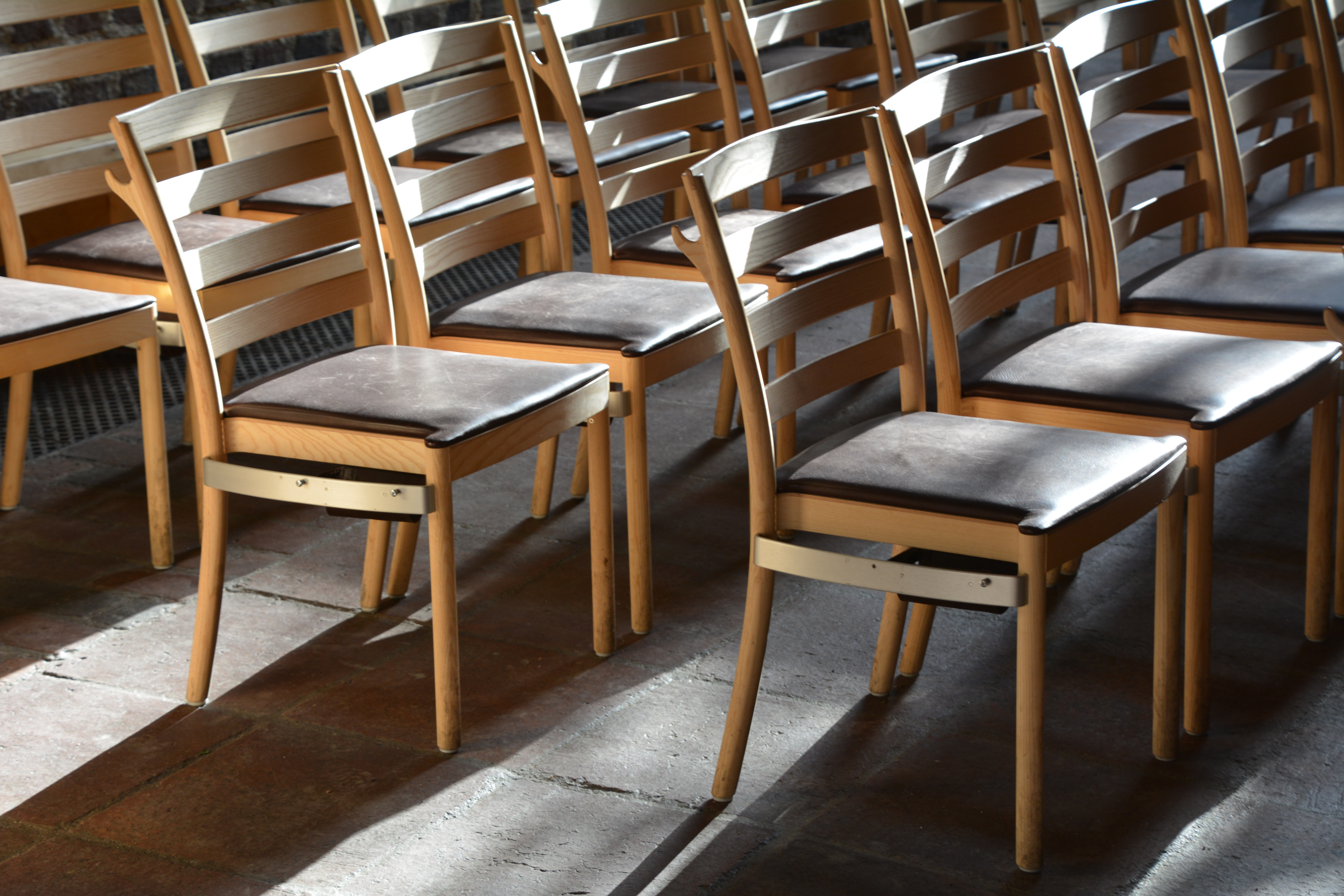 Kyrkorummet, Sankt Tomas kyrka, Vällingby, Stolari ask formgivna av Åke Axelsson, tillverkade av Gärsnäs AB.